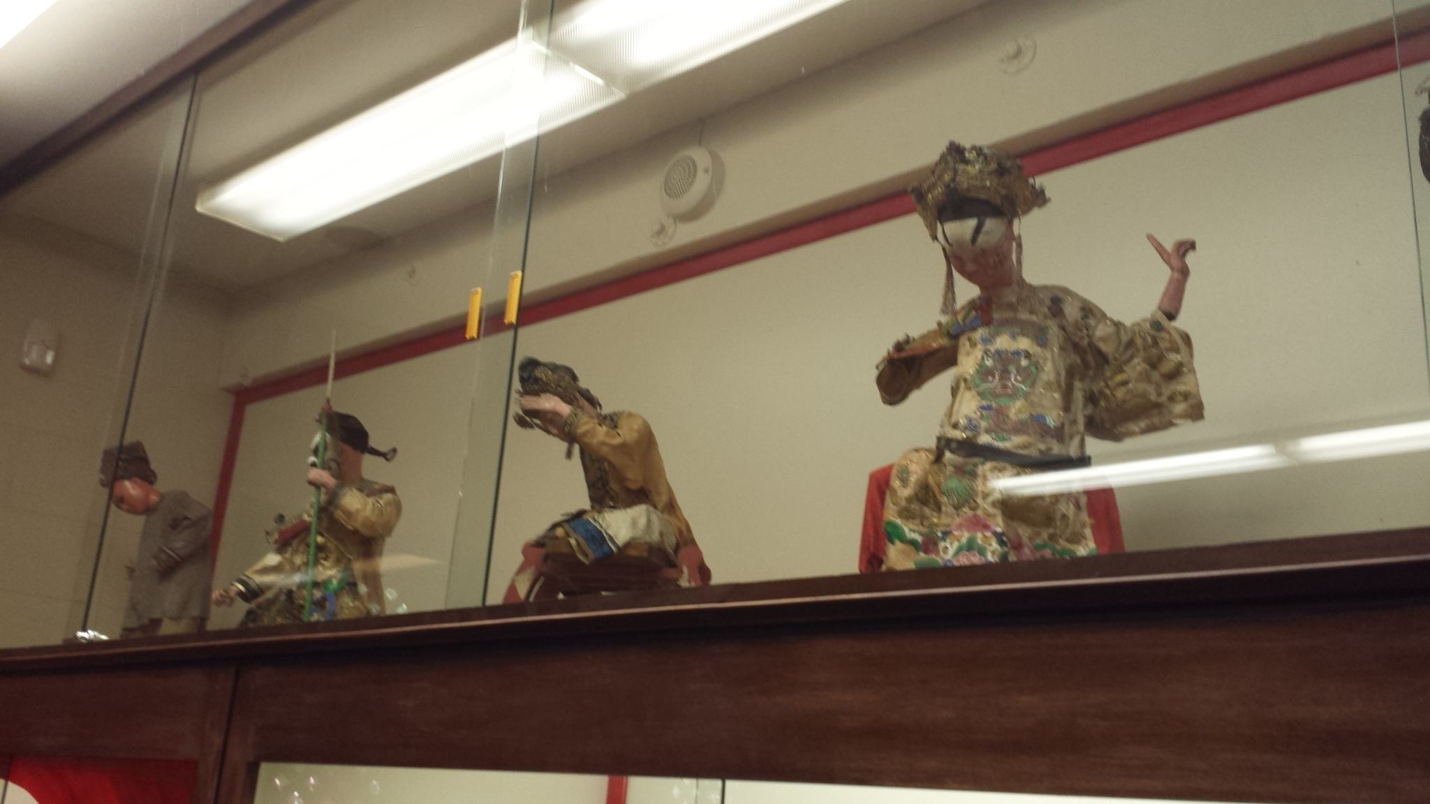 William Collins, photo